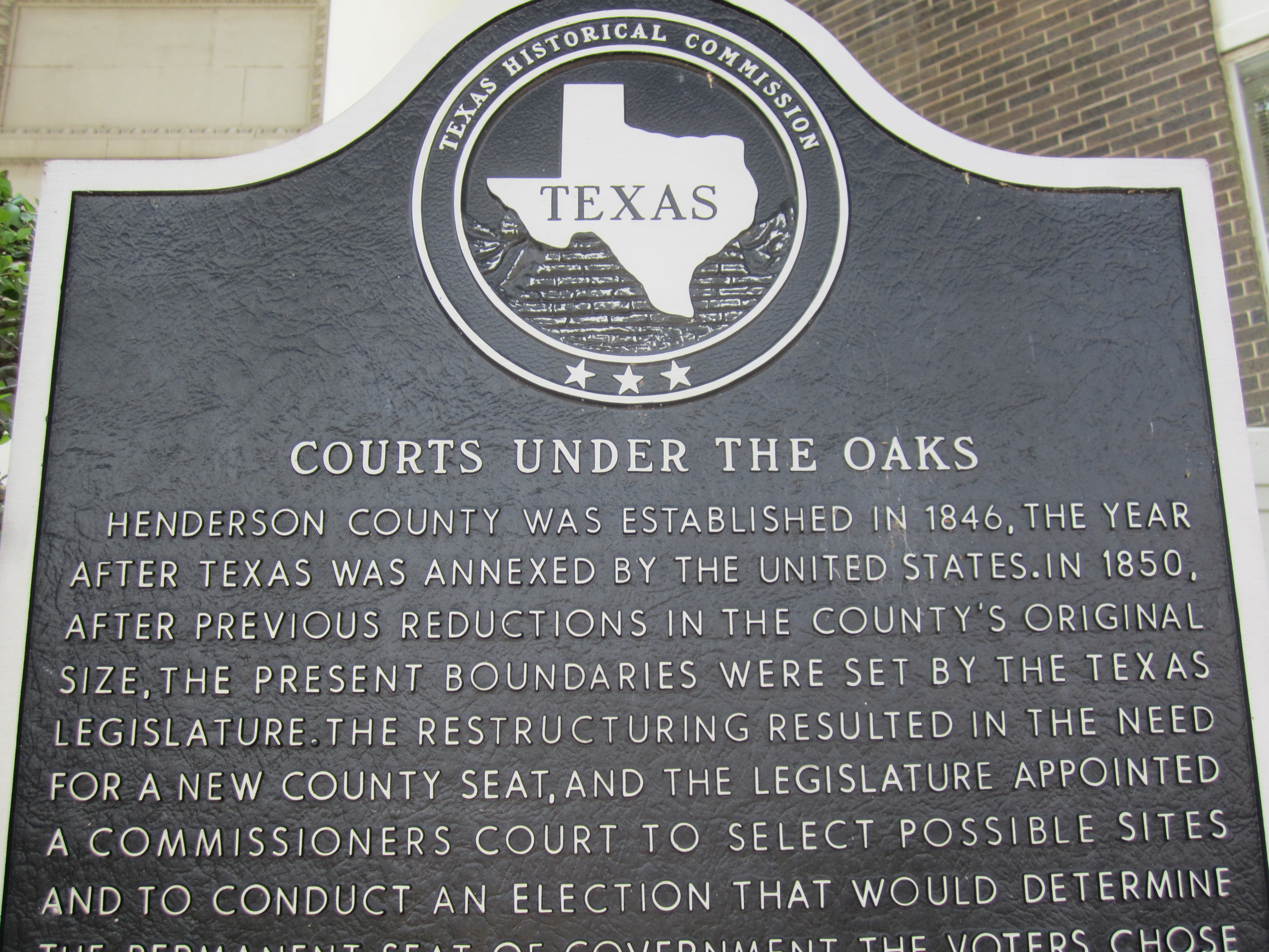 I took photo with Canon camera in Athens, TX.